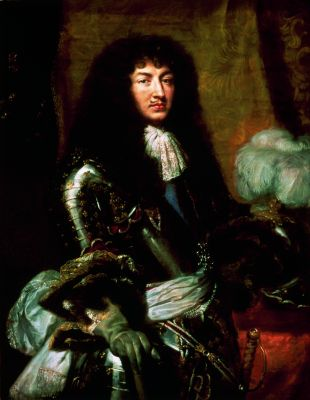 Portrait of Louis XIV of France (1638-1715)